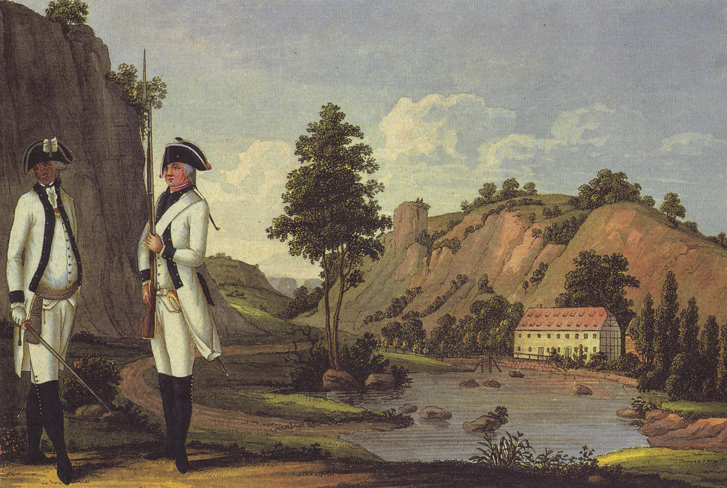 musketeer officer (left) and soldier from saxon infantry regiment "Prinz Anton" in front of a gunpowder factory near Dresden in Saxony (1791)